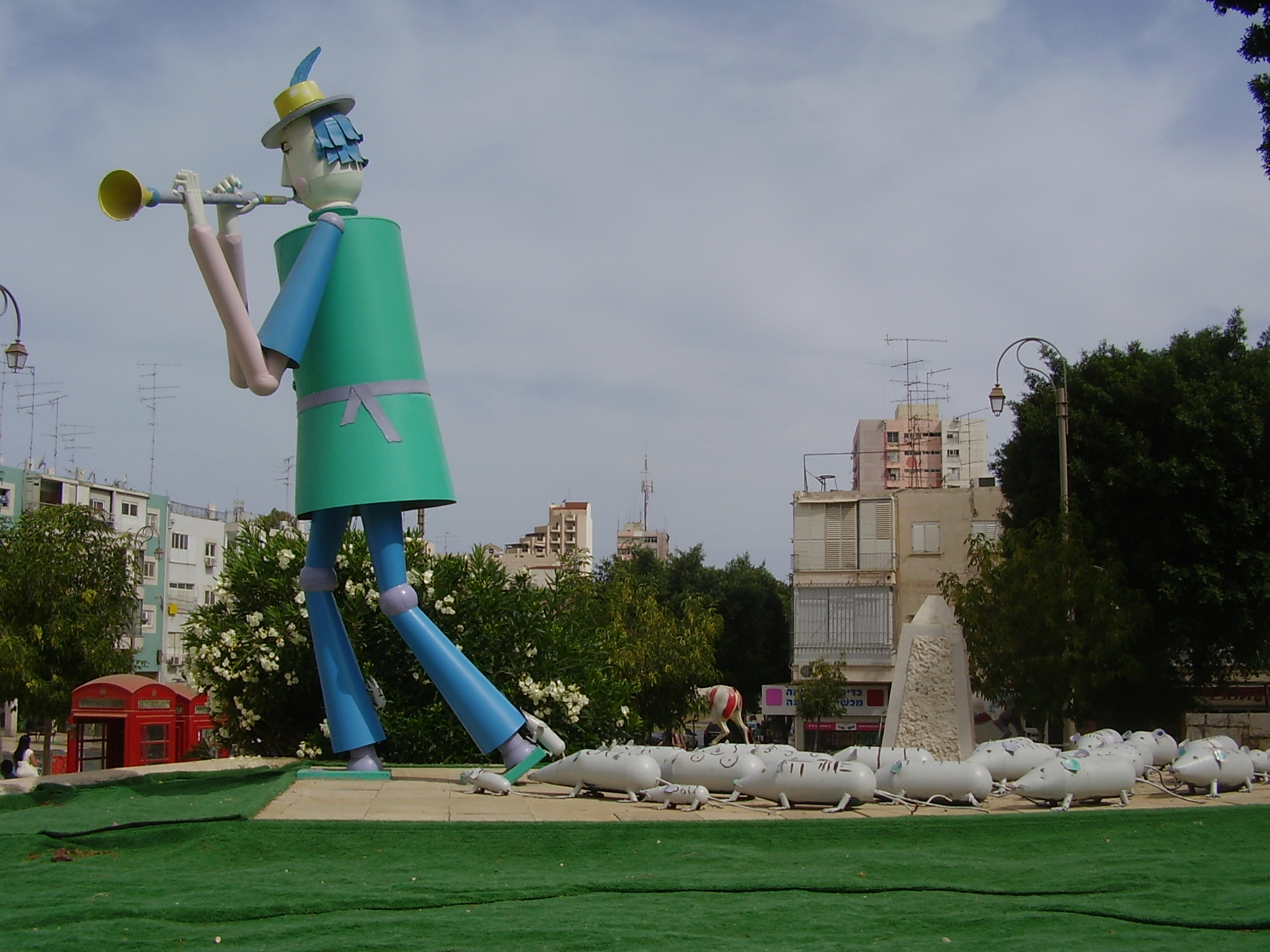 Pied Piper in Petah Tikva, Israel